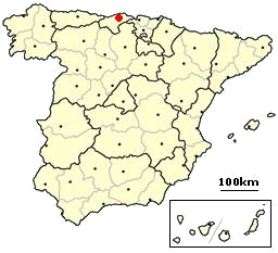 Location of Santander in Spain.